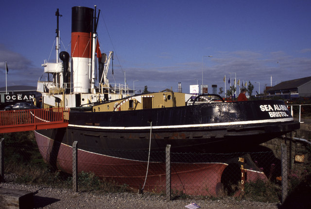 The tug Sea Alarm, formerly Empire Ash at the Welsh Industrial and Maritime Museum, Cardiff in 1997. Scrapped in 1998 causing public outcry